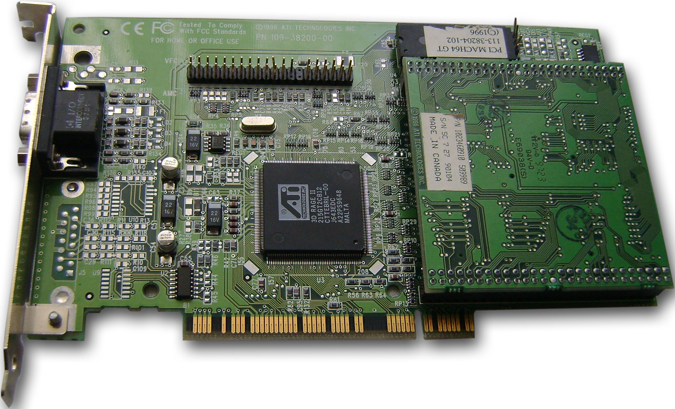 It's a old ATI card.